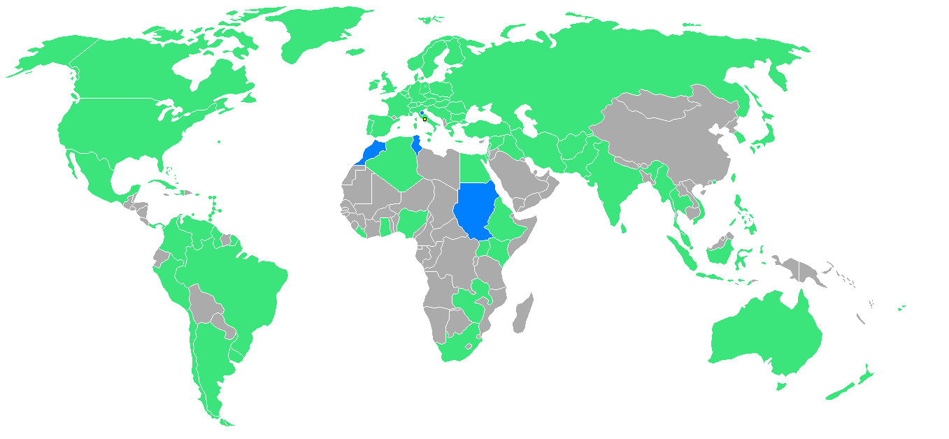 Countries which participated in the 1960 Summer Olympics Blue = Participating for the first time Green = Have previously participated. Yellow square is host city (Rome).